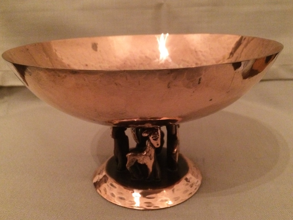 Bowl in cooper Coupe en cuivre